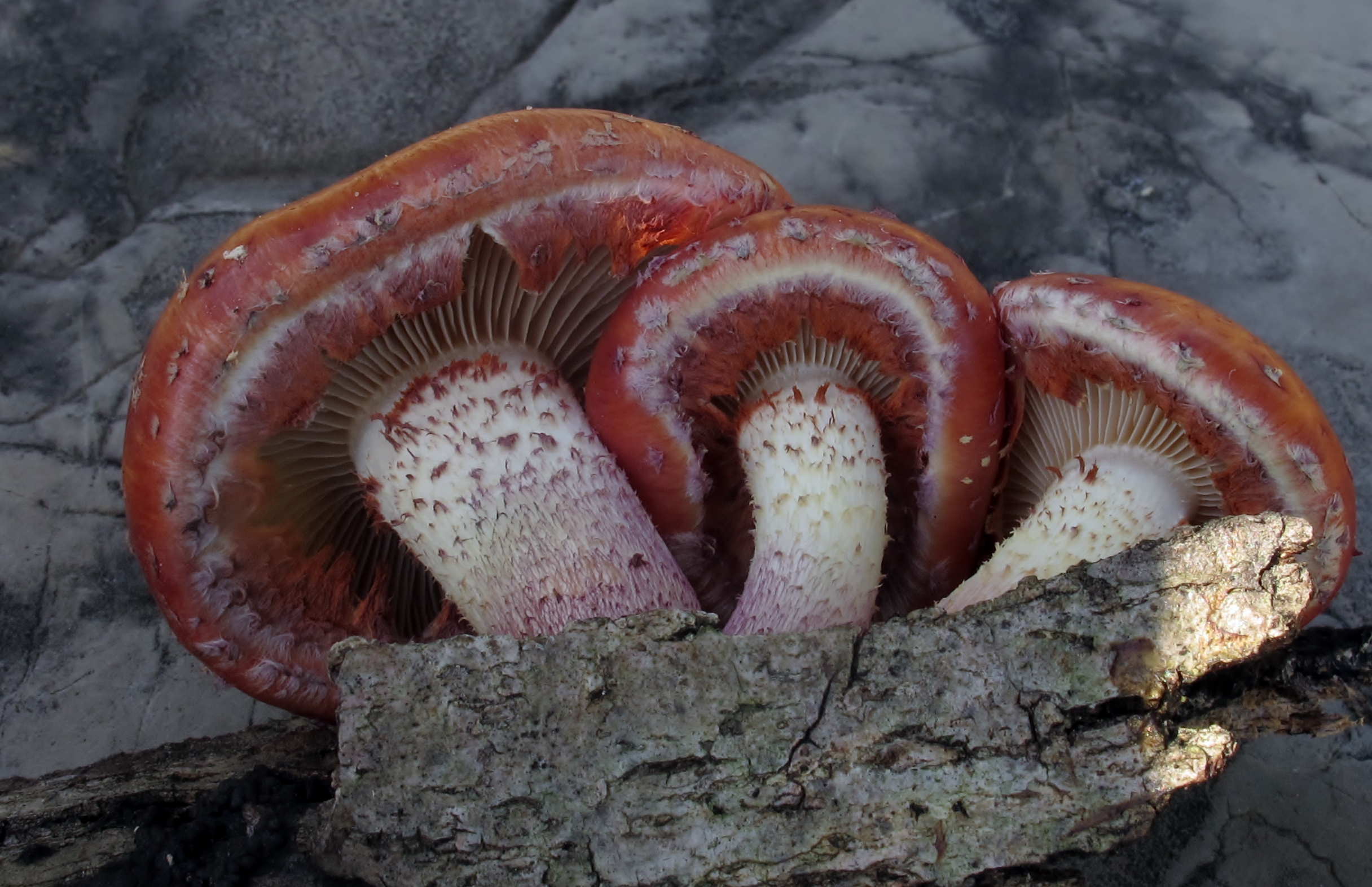 Fruitbodies of the agaric fungus Pholiota polychroa (Berk.) A.H. Sm. & H.J. Brodie. Photographed in Shepherd of the Ozarks, Arkansas, USA.